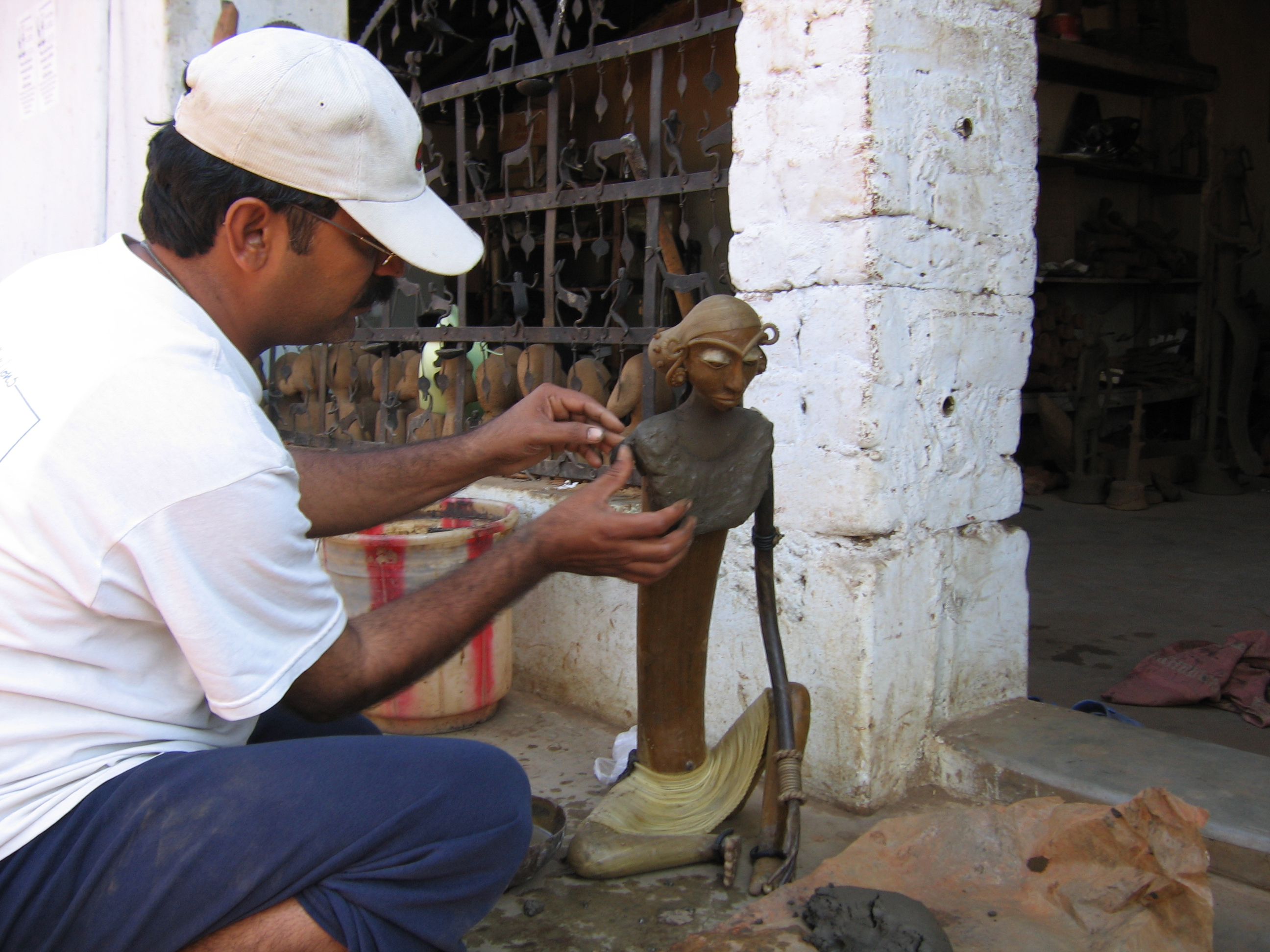 working at kondagaon bastar workshop